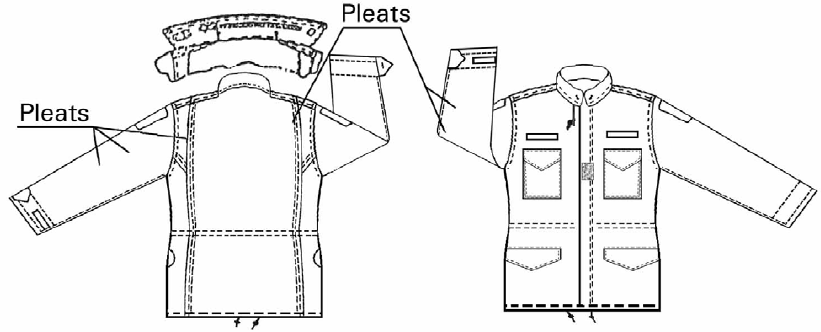 M65 Field jacket from MIL-DTL-43455K